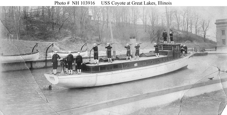 Damaged photograph of United States Navy training boat and ferry USS Coyote (SP-84) in the boat basin at Great Lakes Naval Training Station at Great Lakes, Illinois.